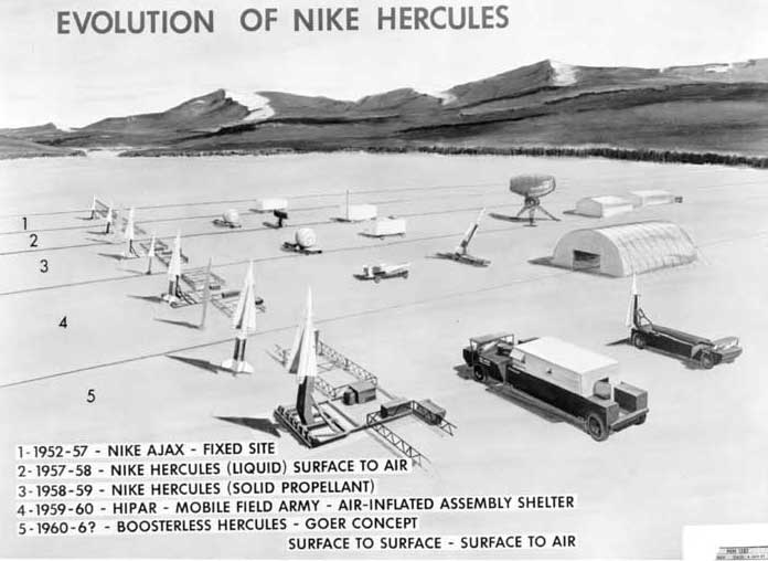 This illustration, from a US Army booklet, shows the evolution of the Nike Ajax and Hercules missiles, and their associated support equipment. In the background is the original Nike I (later known as Ajax) is shown with the LOPAR radar (rectangular) and the associated tracking radars (spherical). In "slice 2", the slightly enlarged Hercules is shown, before its conversion to solid fuel. The missile grows dramatically in slice 3, when it moved to solid fuel and began to be deployed alongside Ajax, along with larger tracking radars and the much more powerful HIPAR radar. Slice 4 shows the Army's first attempts at a semi-mobile system, using truck-mounted reloaders and inflatable structures for the control equipment. Ajax is shown being phased out. Finally in slice 5, experiments with fully mobile systems based on the GOER vehicle and optionally removing the booster cluster for short- and medium-range engagements are shown. Neither of the mobile options would be deployed operationally, that role being filled by the MIM-23 Hawk.